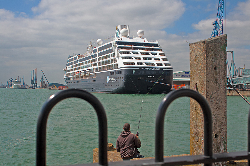 Azamara Quest in Southampton Docks IMO: 9210218 Information about Azamara Quest (ship, 2000) may be found at IMO 9210218.A ship can change name and flag state through time, but the IMO number remains the same through the hull's entire lifetime. As a result, it can be useful to identify a ship by using the IMO number.